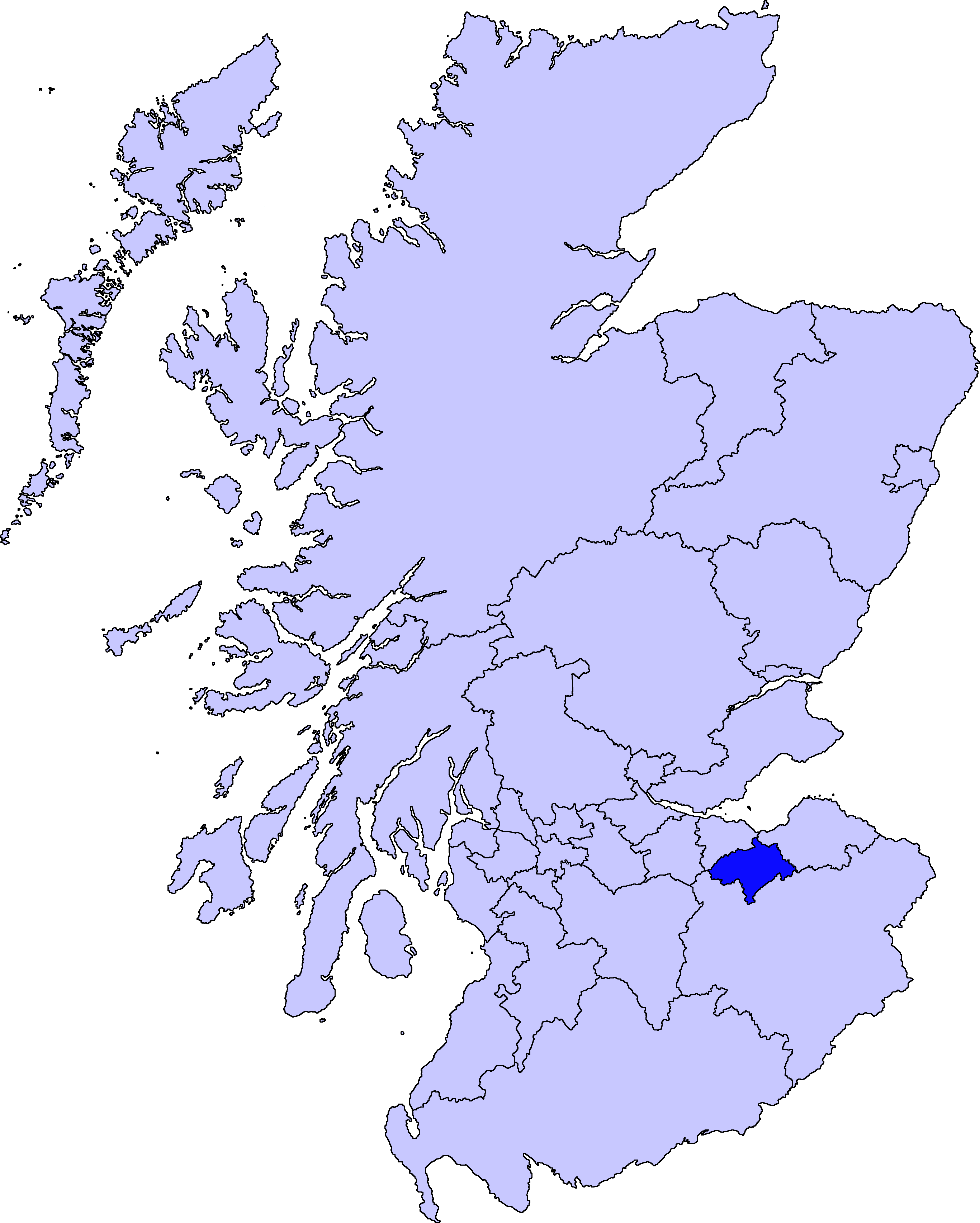 Locator map of present day Midlothian Council district, southeastern Scotland.